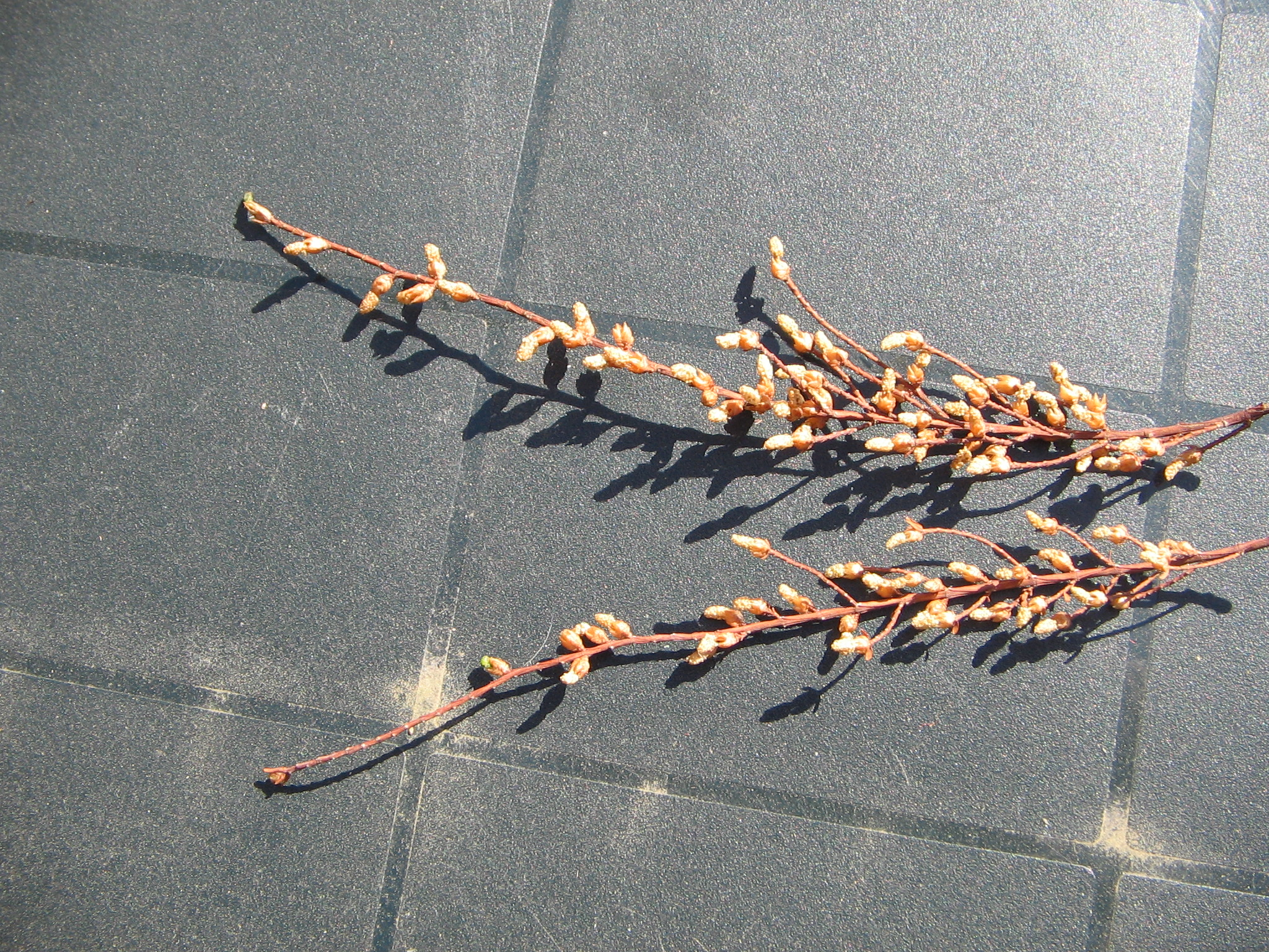 Metasequoia glyptostroboides (male flowers)